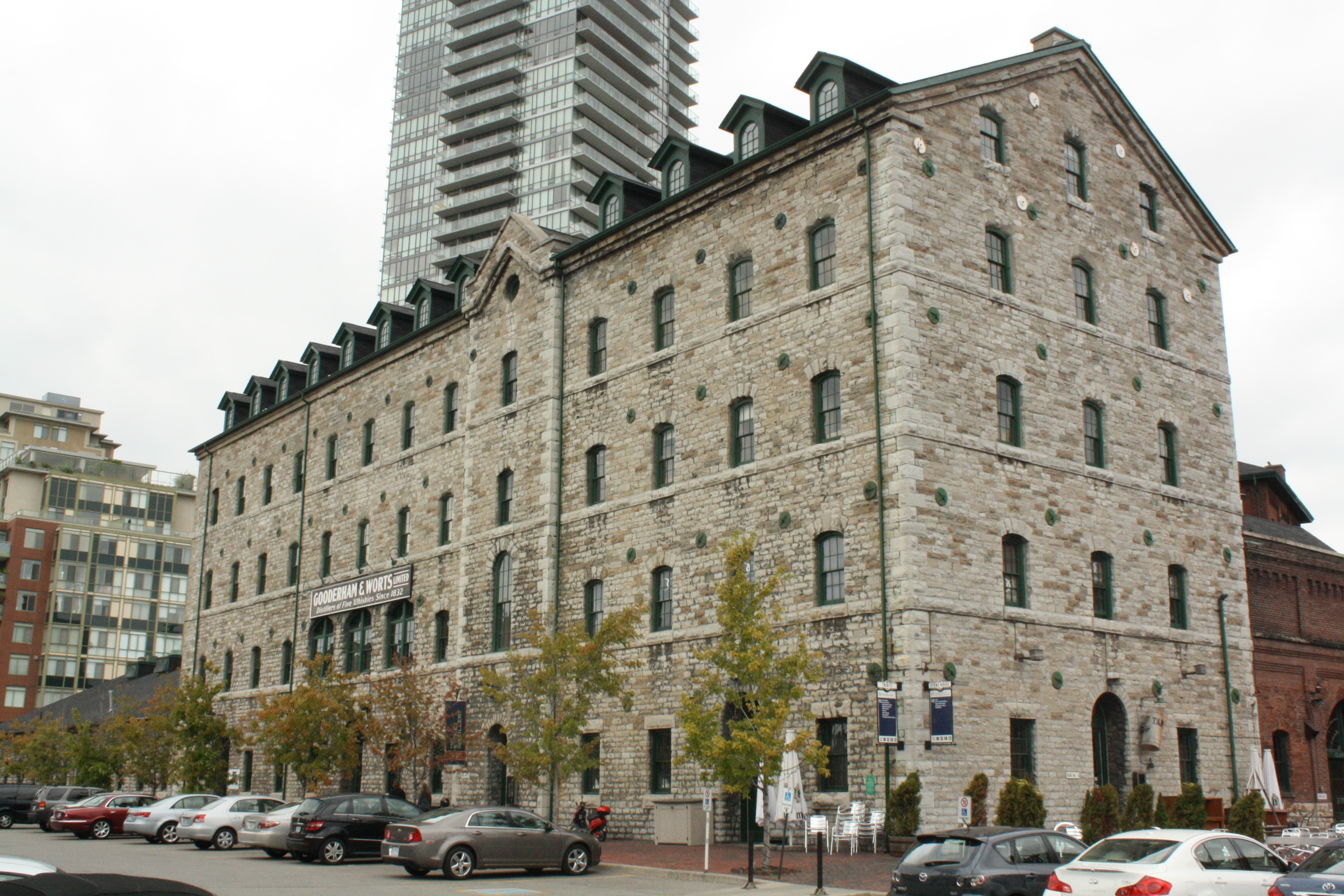 Southern View of the Stone Distillery Building in the Distillery Historic District of Toronto, Ontario.